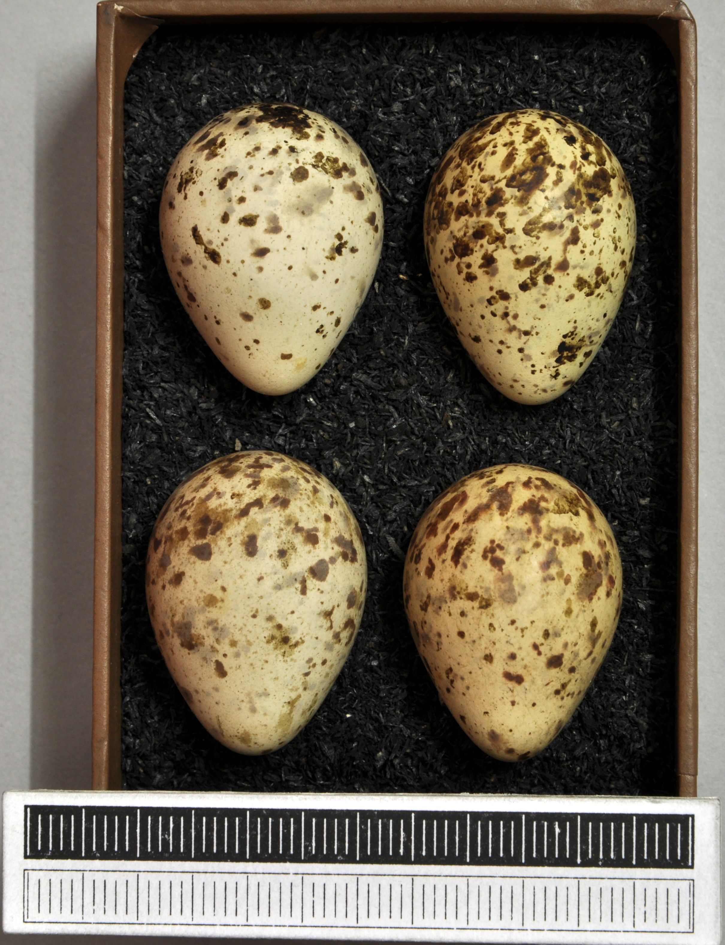 Temminck's stint Calidris temminckii , egg, Coll. Museum Wiesbaden